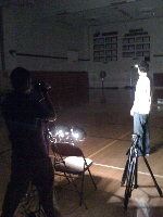 Director John Park and actor Spencer Bakst filming a film for Chapel entitled The Filing Cabinet.